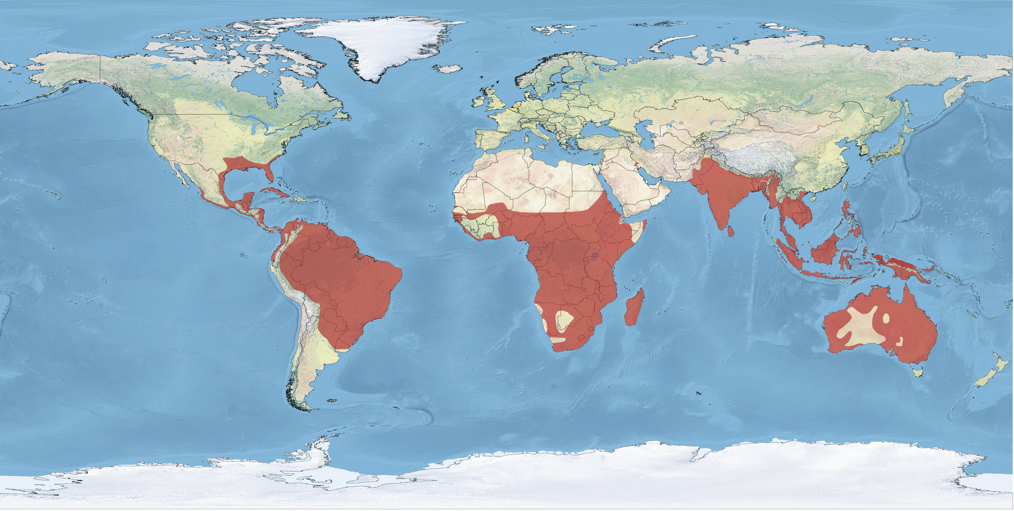 The approximate distribution of the Darter family, according to the IUCN Red List.